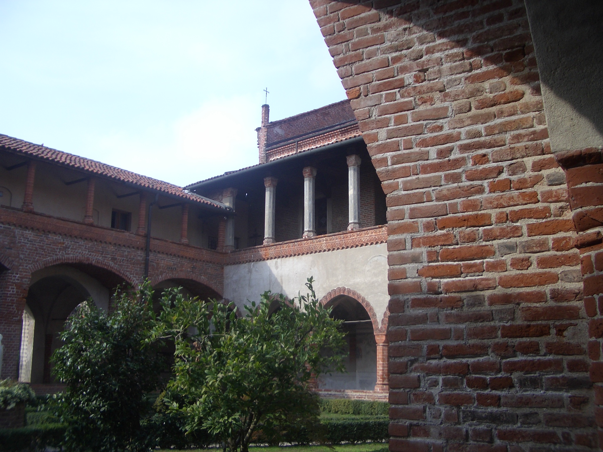 The cloister of St. Nazzaro and Celso Abbey, San Nazzaro Sesia, Novara, Italy.